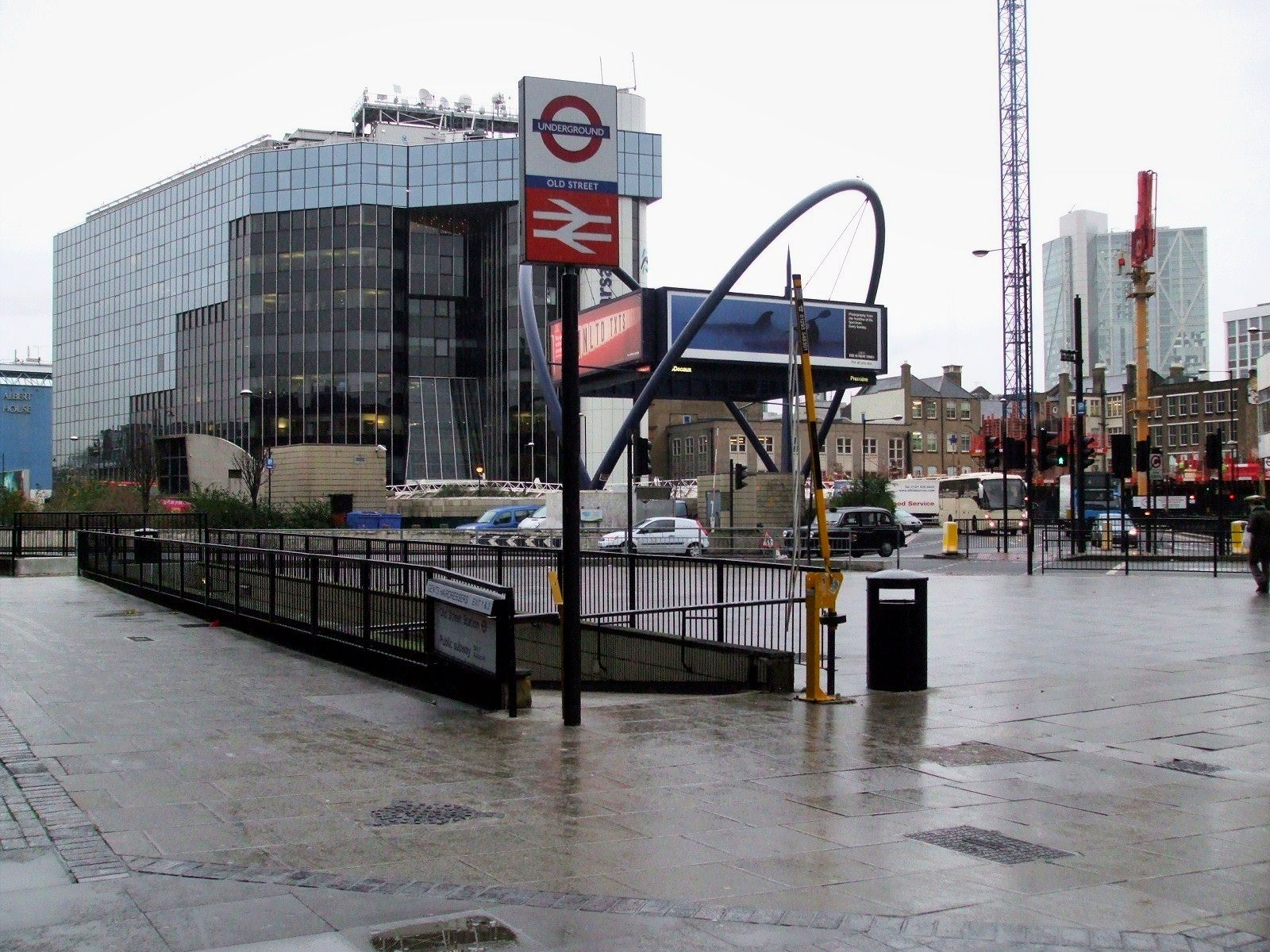 Old Street station northwestern entrance, on Old Street